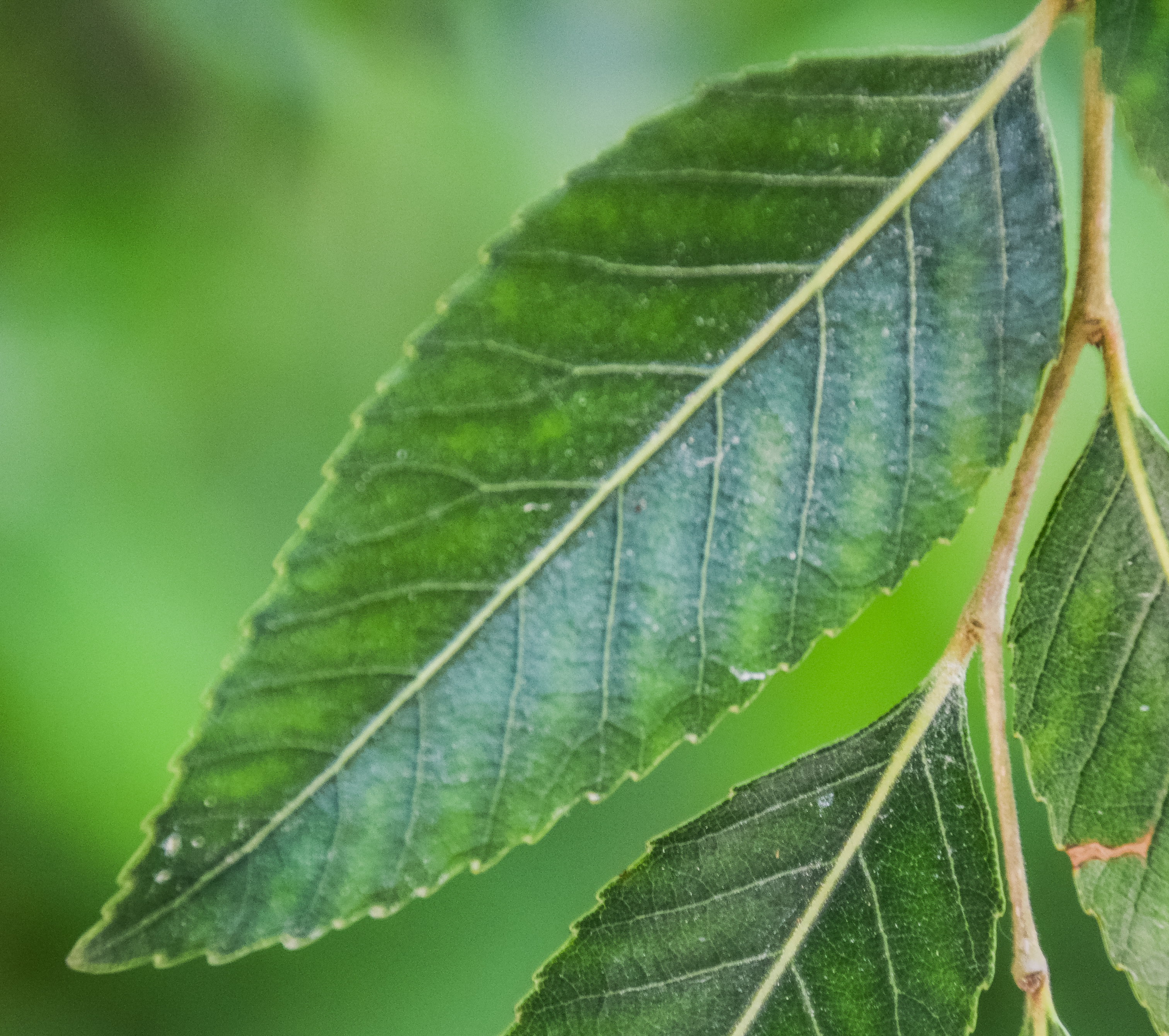 Nothofagus moorei in Eastwoodhill Arboretum, Gisborne Region, New Zealand